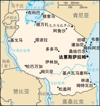 CIA map of Tanzania with Simplified Chinese captions